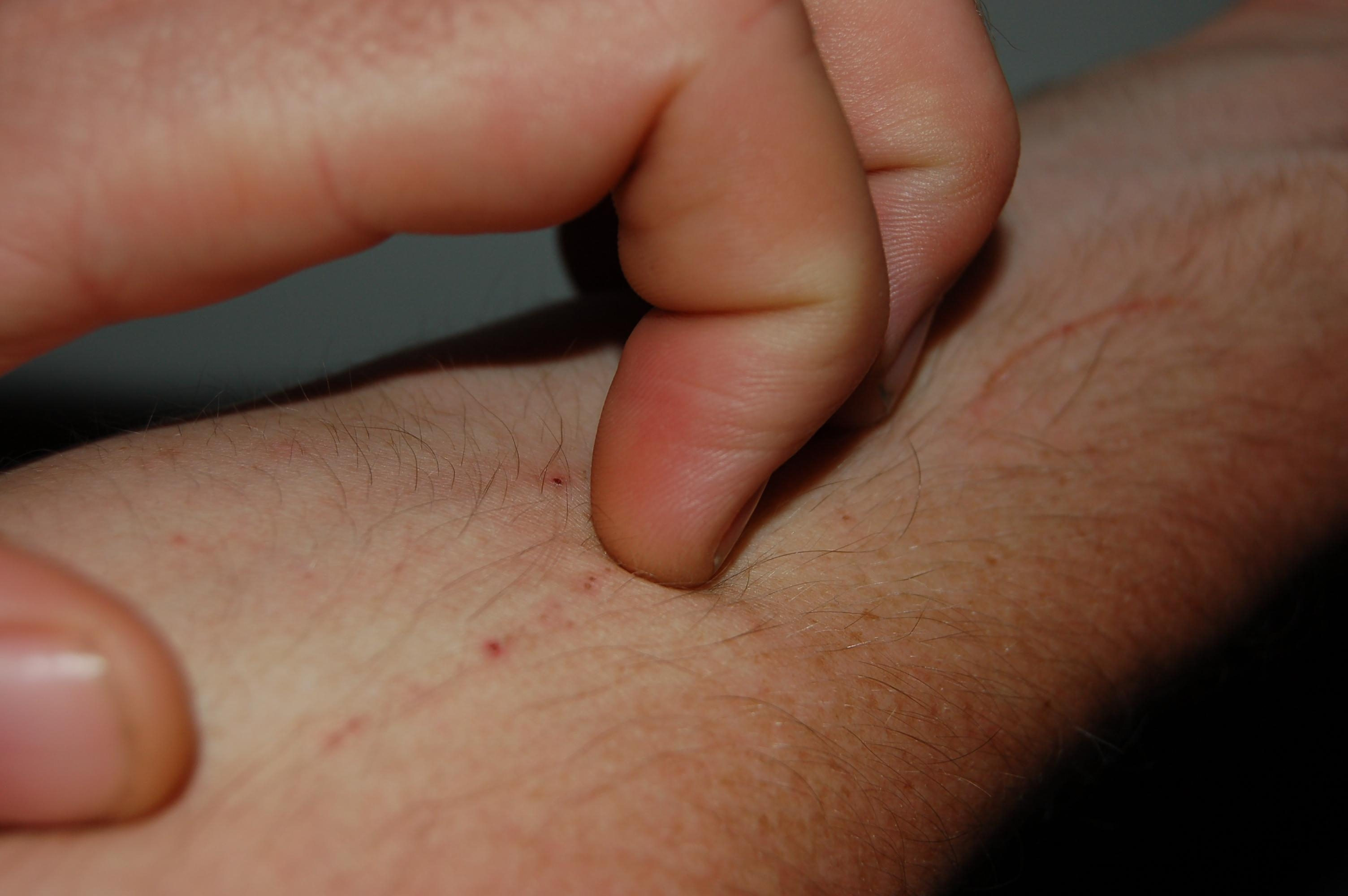 A hand scratching at a pruritus on arm.